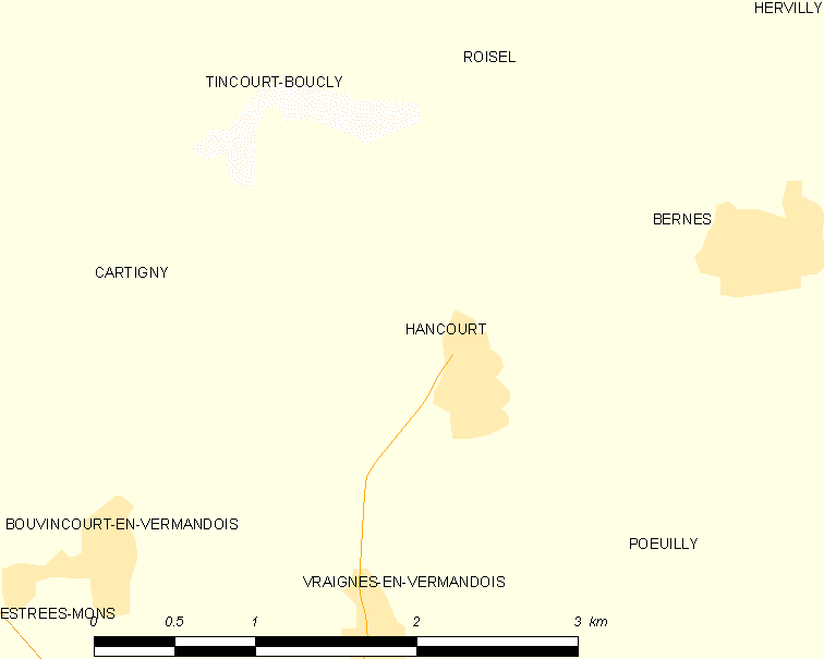 Map of French municipality Hancourt